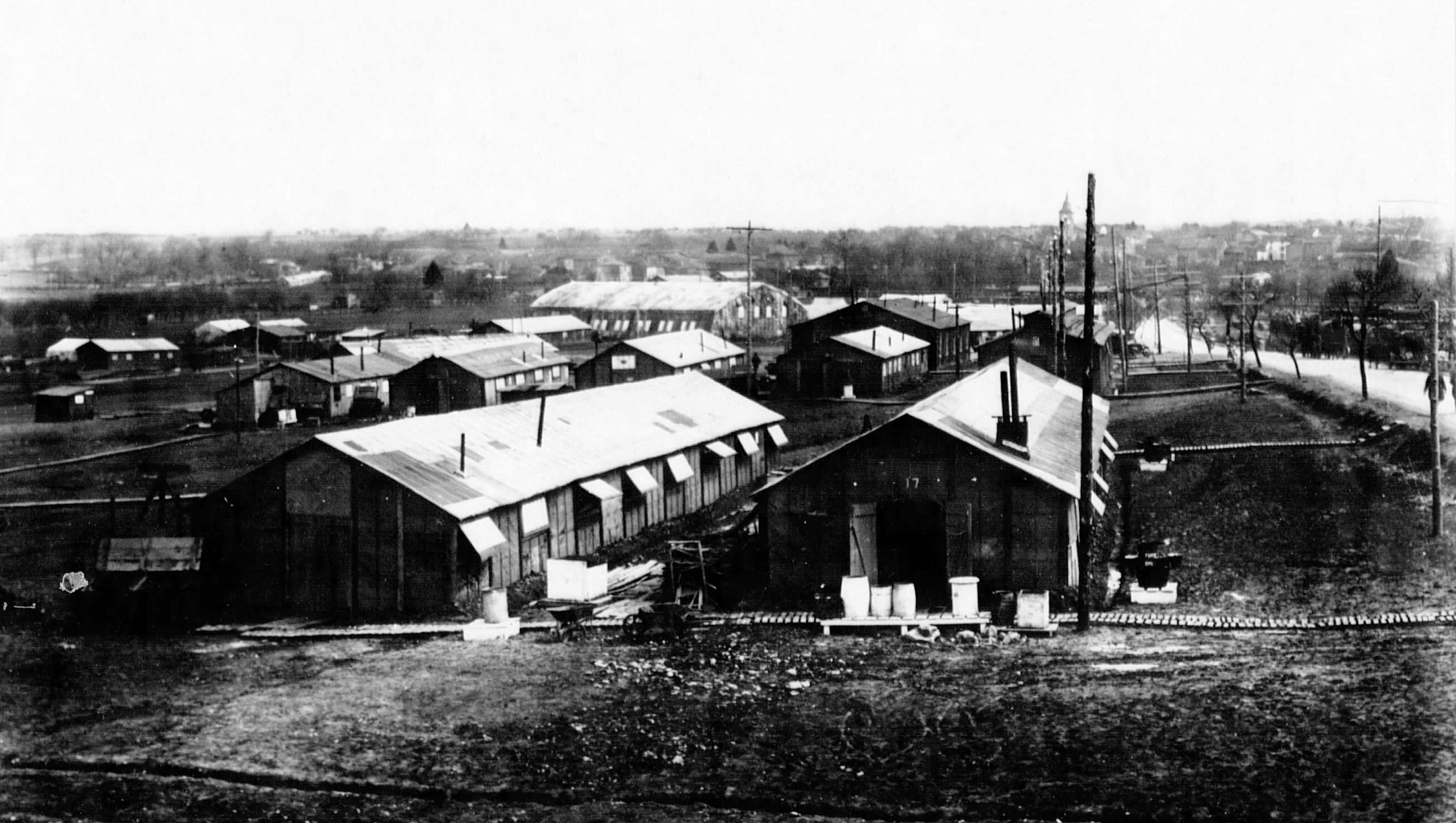 Colombey-les-Belles Aerodrome - 1st Air Depot Support Buildings. Taken after the armistice as all camouflage has been removed. Source: Series 1, Paris Headquarters and Supply Section, Volume 30 History of the 1st Air Depot at Colombey-led-Belles, Gorrell's History of the American Expeditionary Forces Air Service, 1917–1919, National Archives, Washington, D.C.